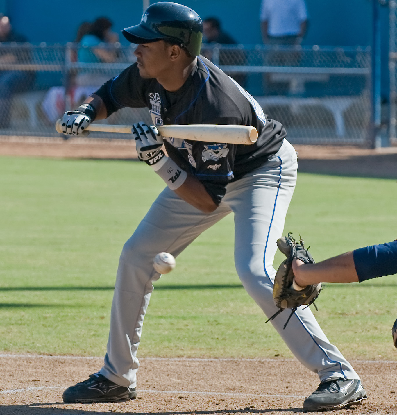 Jose Morban of the Edmonton Cracker-Cats attempts to bunt a pitch during a 2008 game.